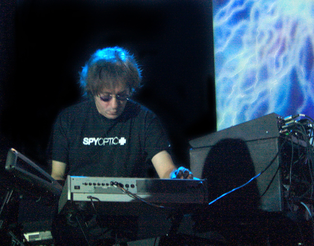 Richard Barbieri performing onstage with Porcupine Tree - Falls Church